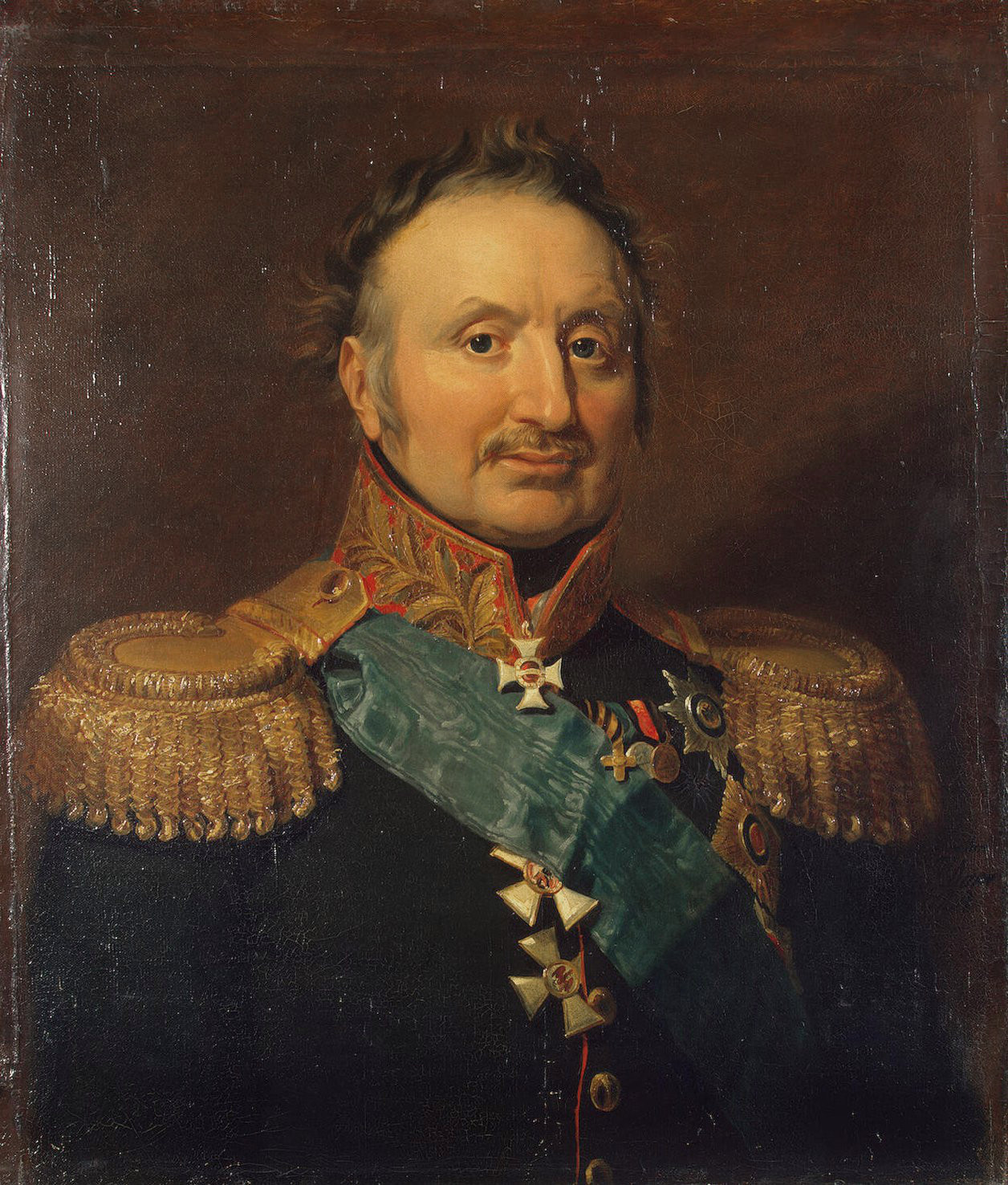 Peter Christianowich Wittgenstein (1768-1842), Russian count, field marshal.